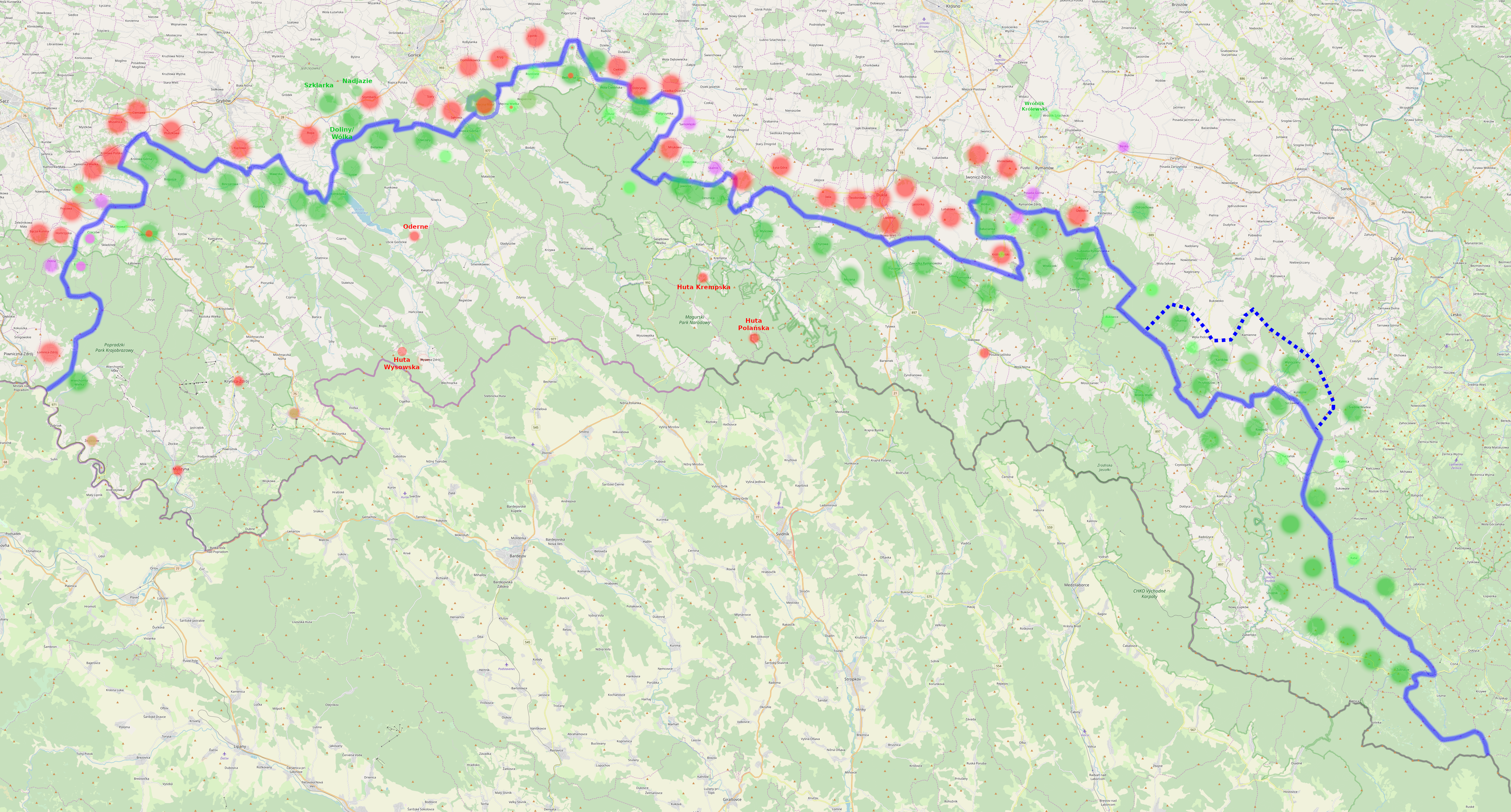 Lemkivshchyna, combination of maps: File:Lemkowie.jpg and [1] (from [2]); Blue line: borders of Lemkivshchyna dashed blue line: transitional Lemko-Bojko villages red dot: Polish village pink: mixed village with Polish majority dark green: Lemko village light green: mixed with Lemko majority [name added when missing on the map]